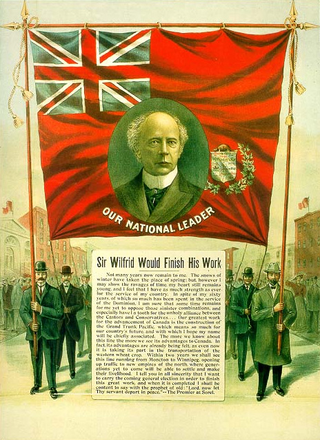 Election flyer for Wilfrid Laurier and the Liberal Party in the 1908 federal election in Canada.Our National LeaderSir Wilfrid Would Finish His WorkNot many years now remain to me. The snows of winter have taken the place of spring: but, however I may show the ravages of time, my heart still remains young, and I feel that I have as much strength as ever for the service of my country. In spite of my sixty years, of which so much has been spent in the service of the Dominion, I am sure that some time remains for me yet to oppose the sinister combinations, and especially I have a tooth for the unholy alliance between the Castors and Conservatives ... Our greatest work for the advancement of Canada is the construction of the Grand Trunk Pacific, which means so much for our country's future, and with which I hope my name will be chiefly associated. The more we know about this line the more we see its advantages to Canada. In fact, its advantages are already being felt as even now it is taking part in the transportation of the western wheat crop. Within two years we shall see this line running from Moncton to Winnipeg, opening up traffic to new empires of the north where generations yet to come will be able to settle and make their livelihood. I tell you in all sincerity that I want to carry the coming general election in order to finish this great work, and when it is completed I shall be content to say with the prophet of old: "Lord, now let Thy servant depart in peace." -- The Premier at Sorel.